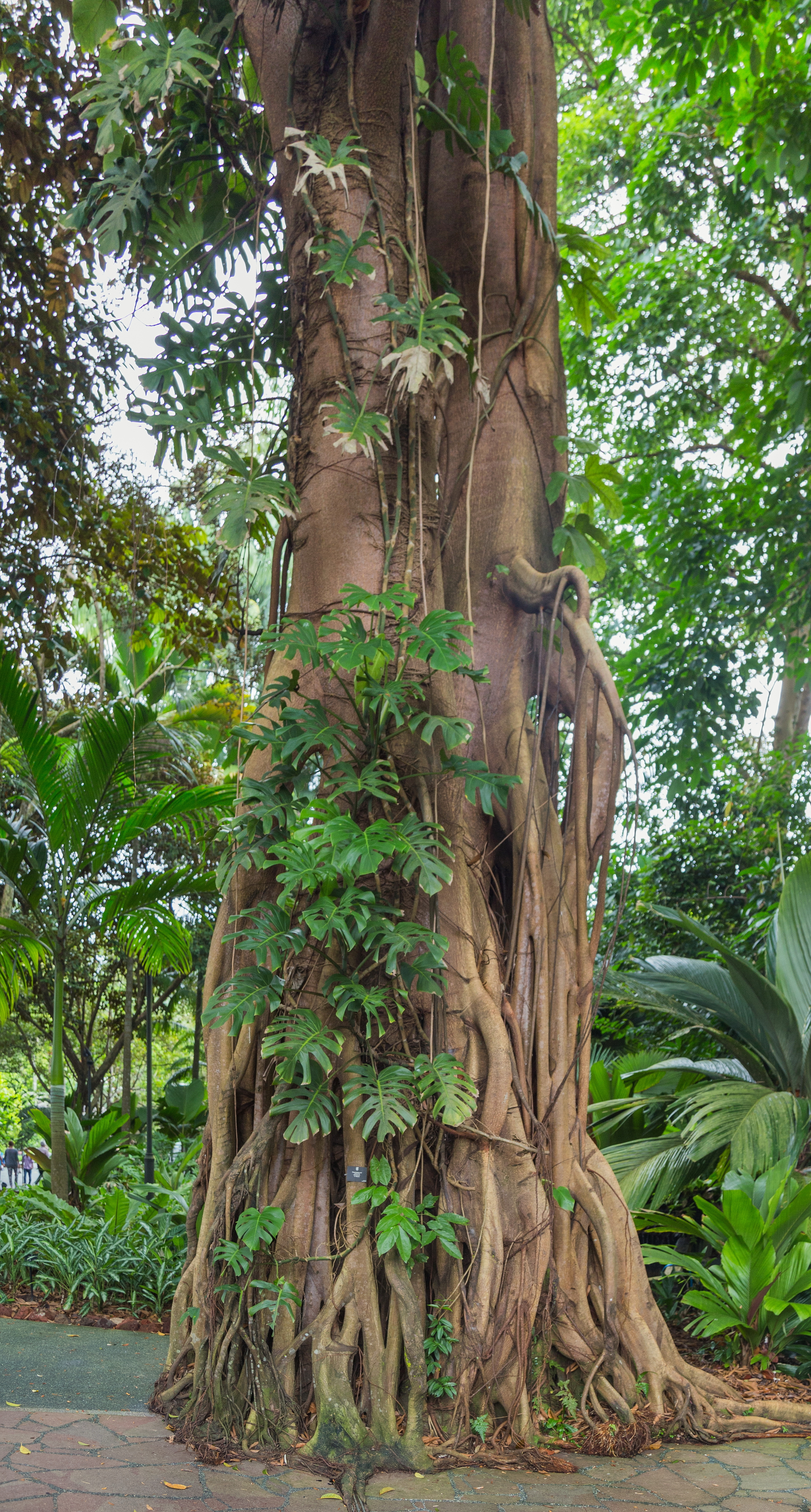 Ficus kerkhovenii. Evolution Garden. Botanic Gardens. Central Region, Singapore.